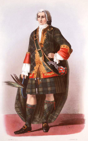 "Forbes". A plate illustrated by R. R. McIan, from James Logan's The Clans of the Scottish Highlands, published in 1845.